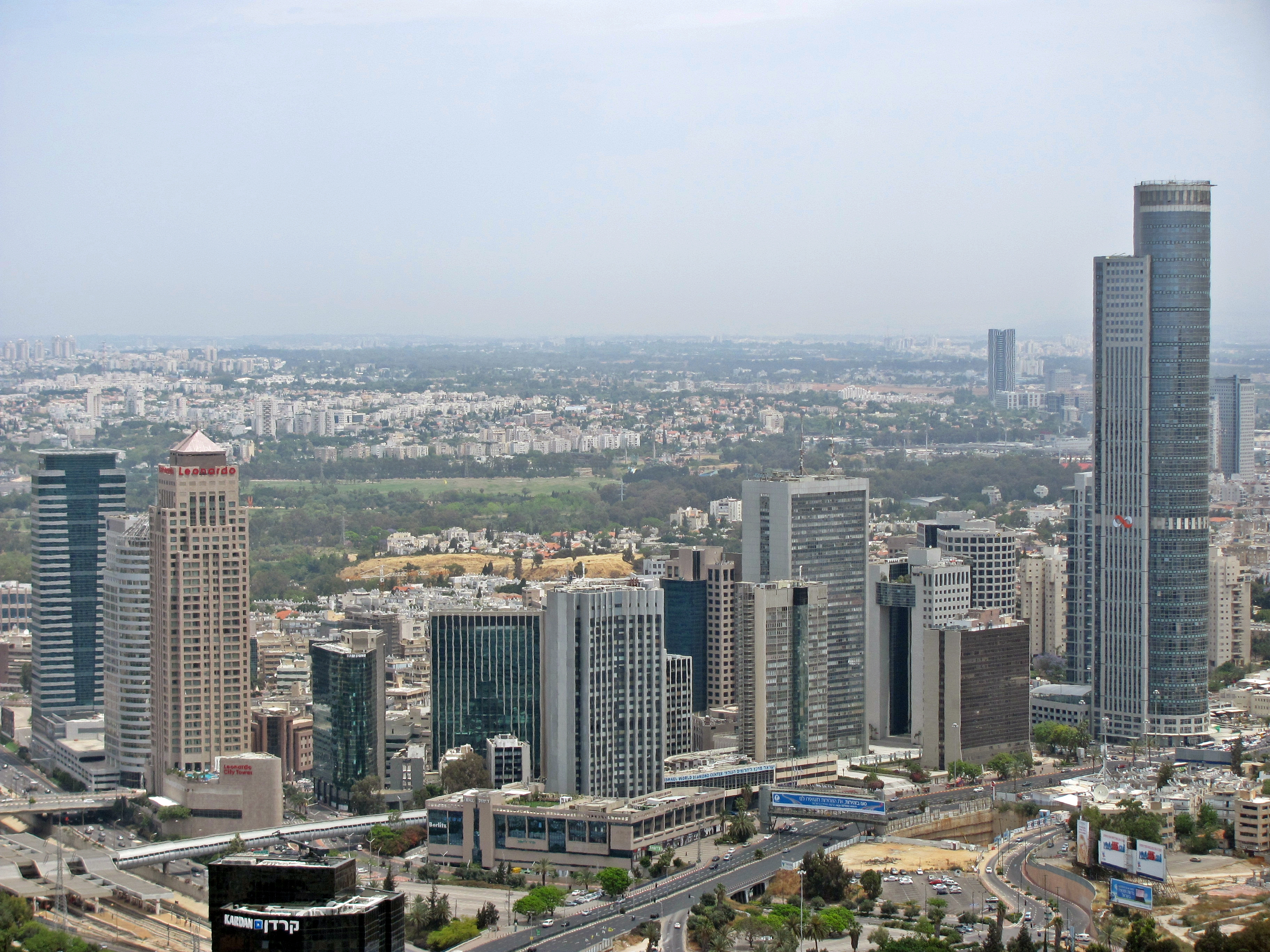 The Ramat Gan diamond exchange district.